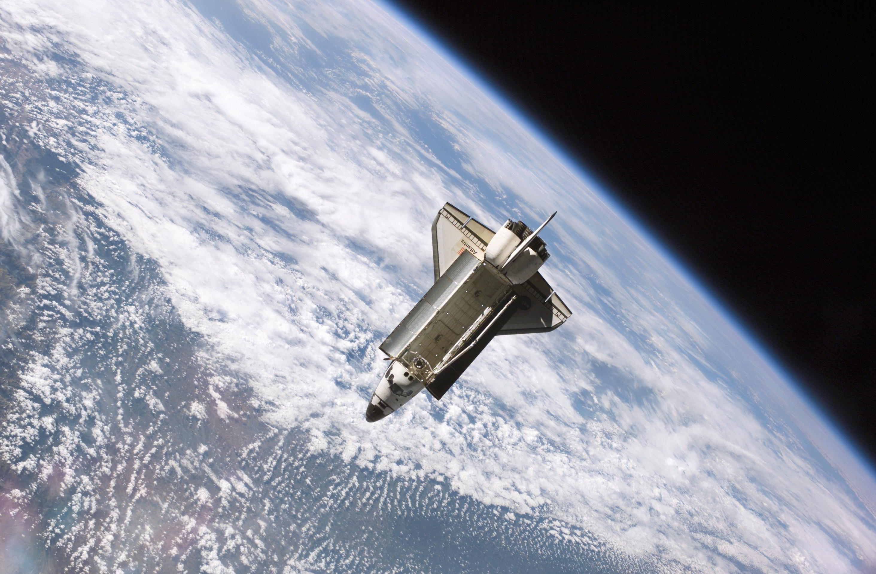 The Space Shuttle Atlantis, backdropped against clouds over Earth, is pictured after it undocked from the International Space Station at 7:50 a.m. CDT, Sept. 17, 2006. The STS-115 astronauts completed six days, two hours and two minutes of joint operations with the station crew.